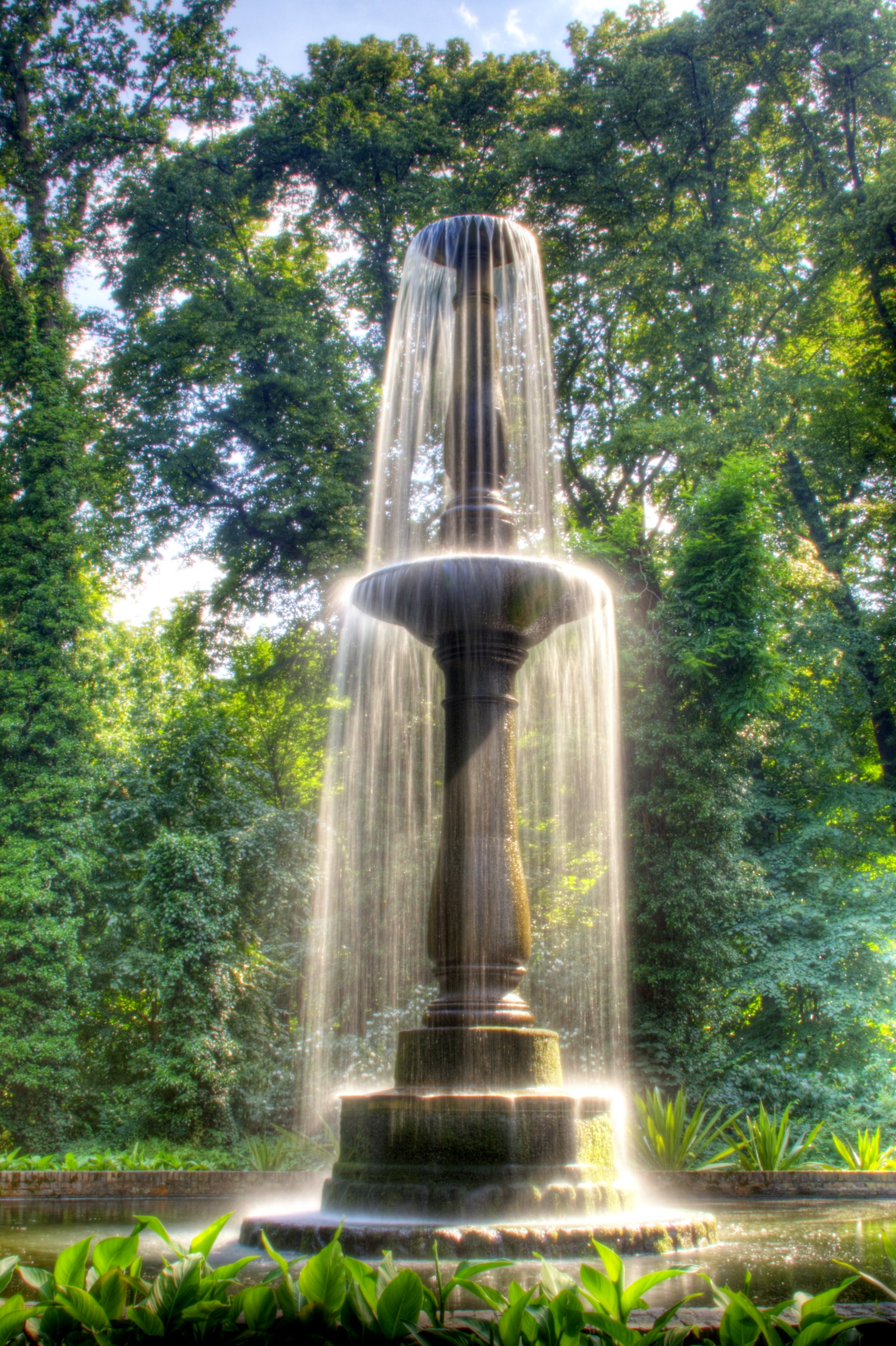 UNESCO World Heritage site „Peacock Island“ in Berlin-Wannsee. The Fountain, created 1824 by Martin Friedrich Rabes in the middle of the "Pfaueninsel" (Peacock Island) in Berlin, Germany. This is a photograph of an architectural monument.